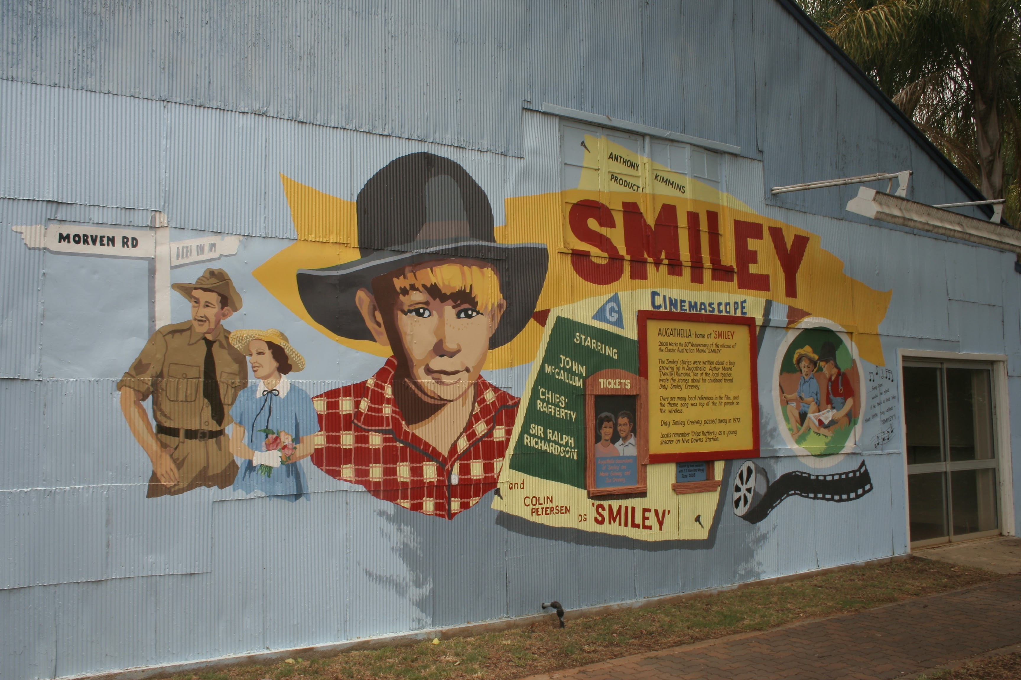 Smiley mural at Augathella, Queensland